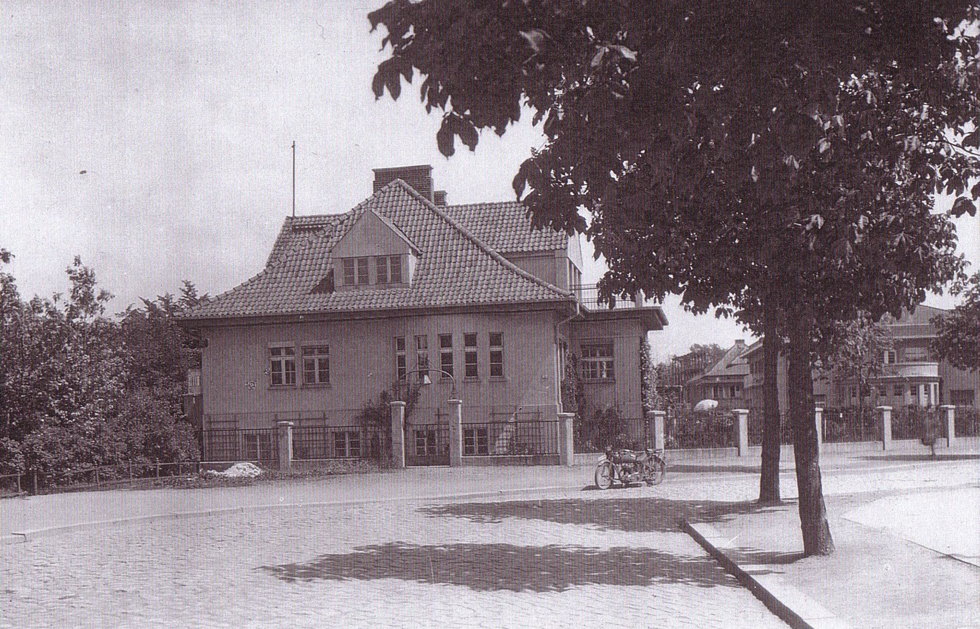 Second house of the Corps Hansea Königsberg.